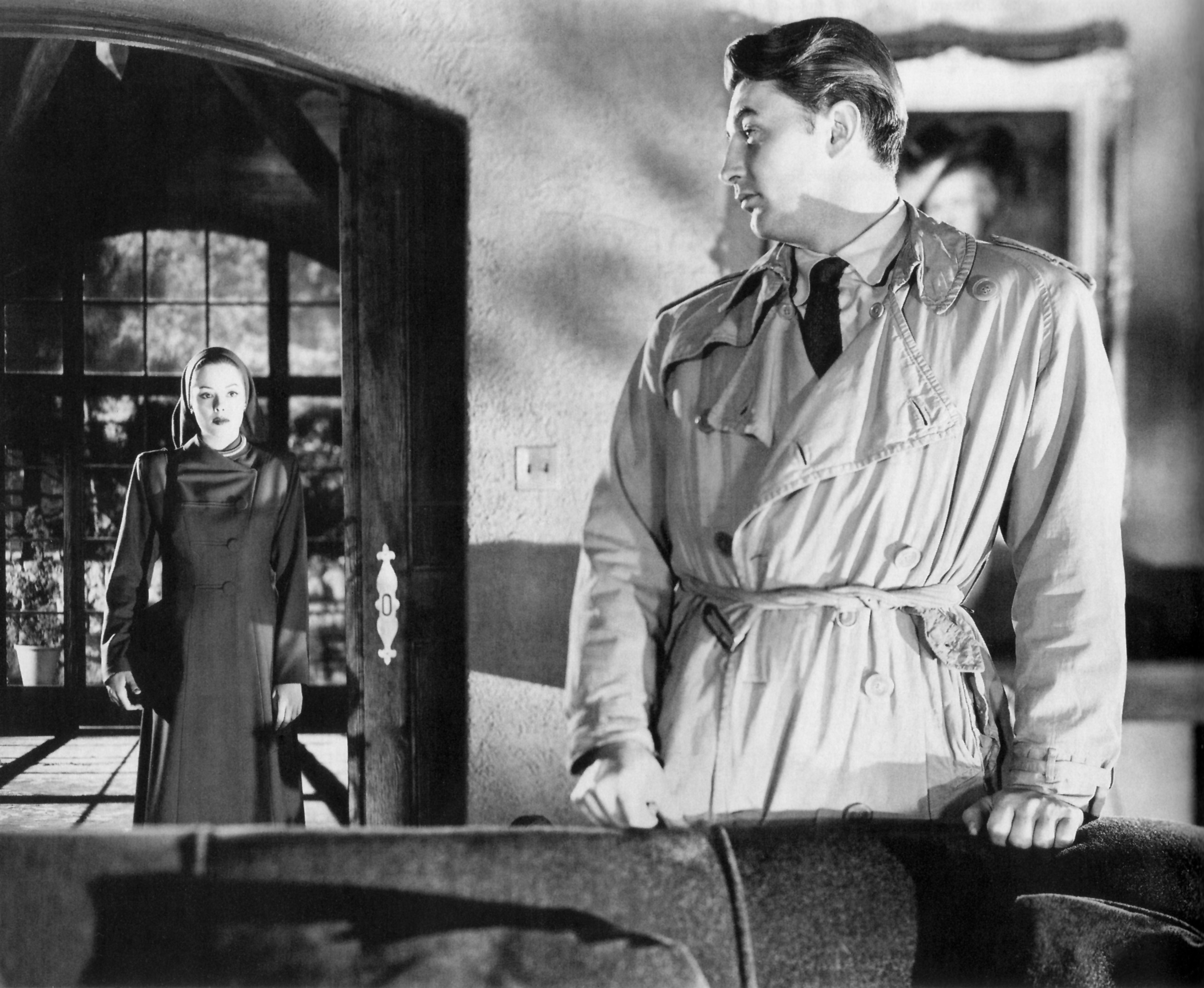 Scene from the 1947 film Out of the Past.